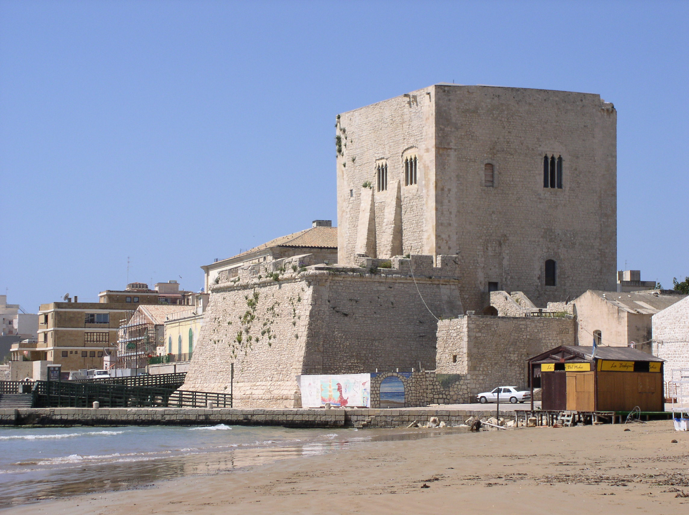 Author: Giuseppe Melfi. This tower in Pozzallo, Sicily, was used against the Turkish invasions in XIV and XV centuries